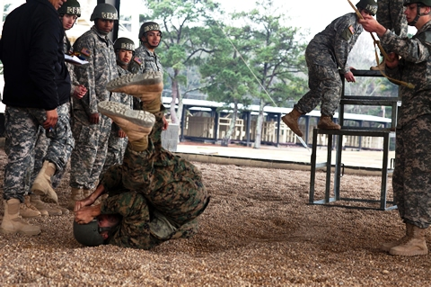 U.S. Army Airborne School's Basic Airborne Course students practicing their Parachute Landing Falls (PLFs) in the sawdust pits at Fort Benning, Georgia